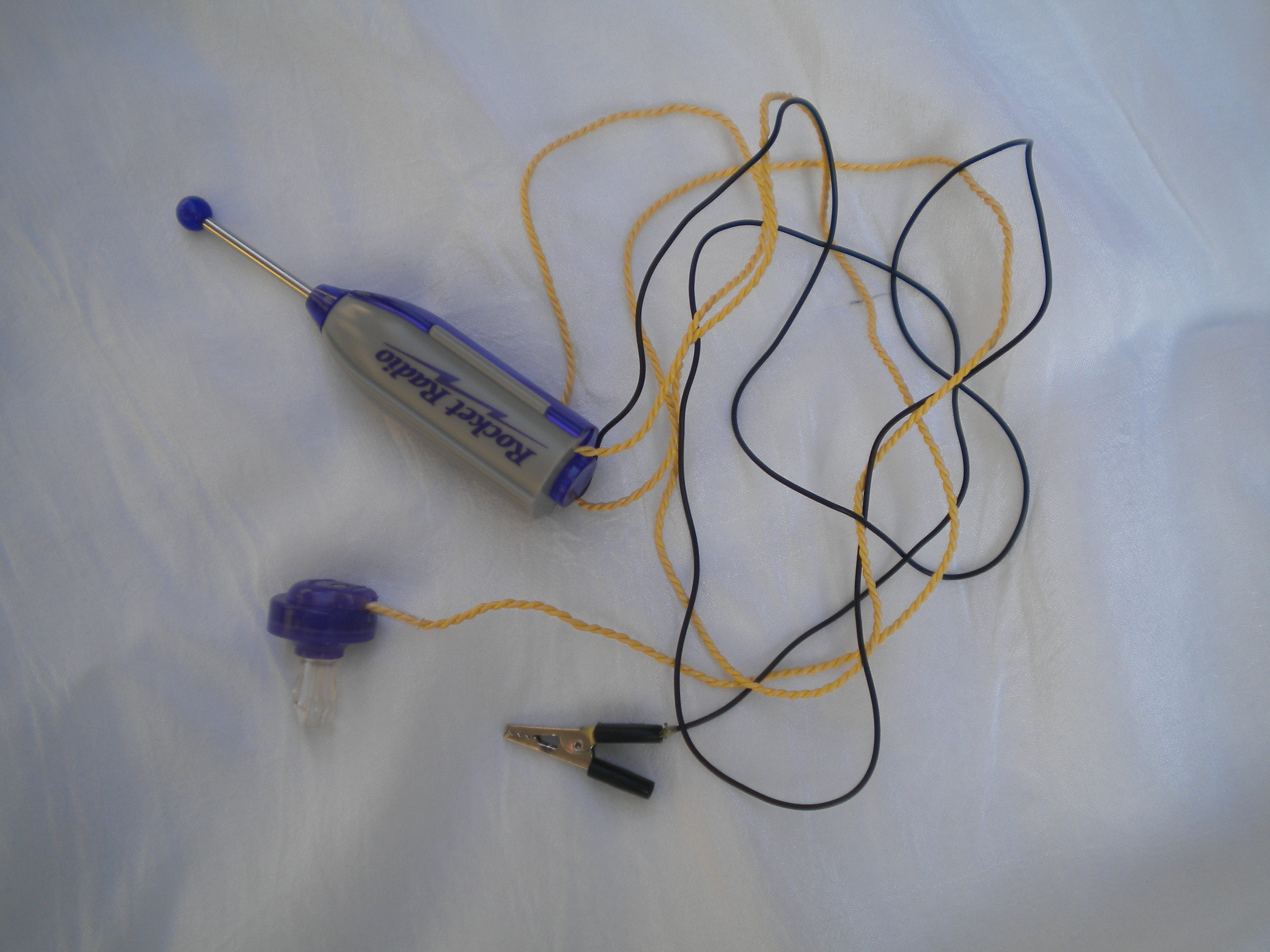 A crystal radio set. This is a simple radio that gets its power from the radio waves it receives, so it doesn't need batteries. The radio is tuned by turning the rod sticking out of the end. The black wire is the antenna wire. In use, it is clipped onto a longer wire or a large metal object such as a bedspring that serves as an antenna.